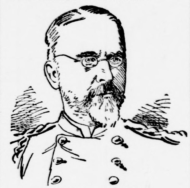 Oliver Christian Bosbyshell, Superintendent of the Mint at Philadelphia and a Colonel in the National Guard